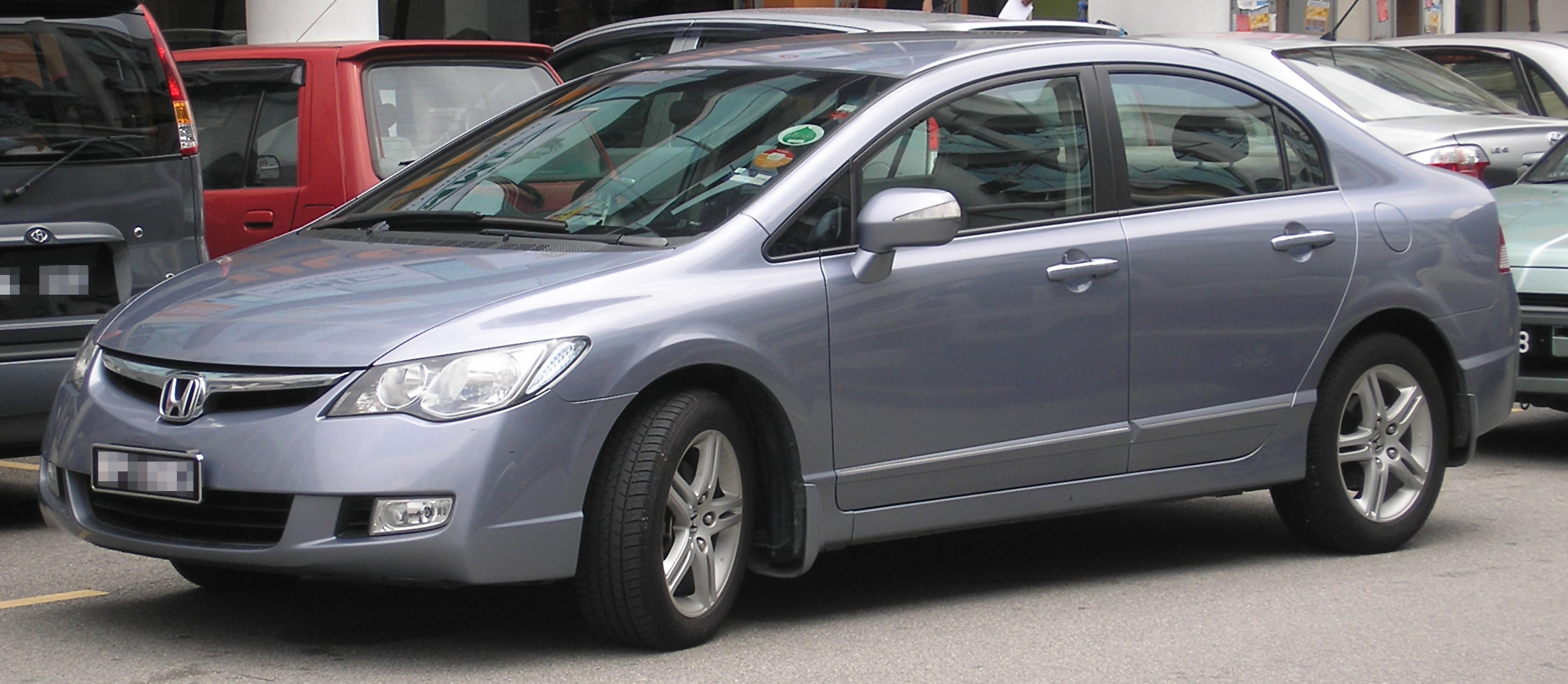 Front-side shot of an eighth generation Honda Civic, in Serdang, Selangor, Malaysia.